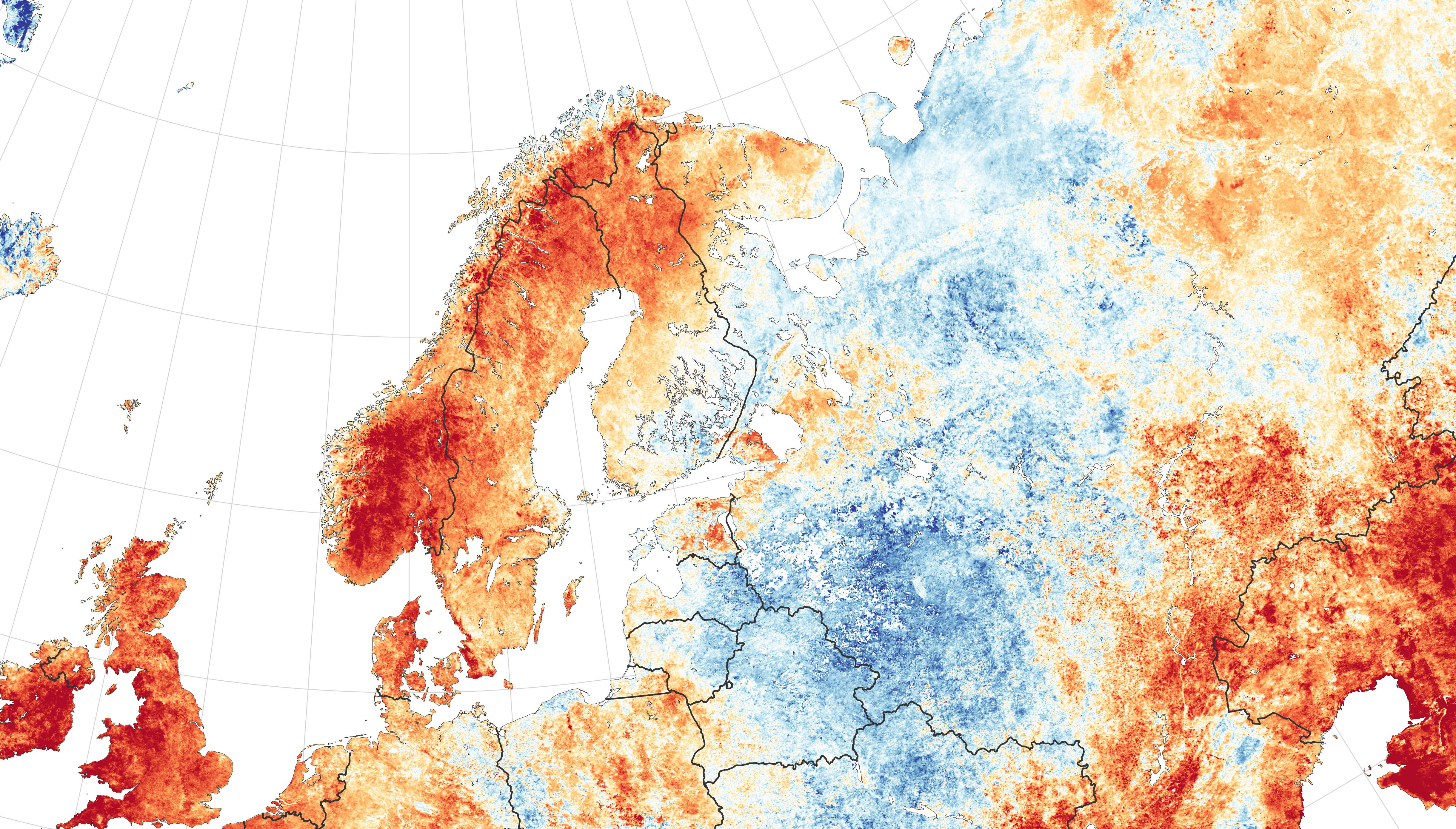 This temperature anomaly map is based on data from MODIS on NASA’s Terra satellite. It shows land surface temperatures from July 1-15, 2018, compared to the 2000–2015 average for the same two-week period. Red colors depict areas that were hotter than average; blues were colder than average. White pixels were normal, and gray pixels did not have enough data, most likely due to excessive cloud cover. Note that it depicts land surface temperatures, not air temperatures. Land surface temperatures reflect how hot the surface of the Earth would feel to the touch in a particular location. They can sometimes be significantly hotter or cooler than air temperatures. The hot, dry conditions helped create the severe fire risk for the Sweden. As of July 20, Sweden has over 10,000 hectares of burned land, which is nearly 24 times higher than the amount of burned land averaged over 2008-2017, according to the Copernicus Emergency Management Service.